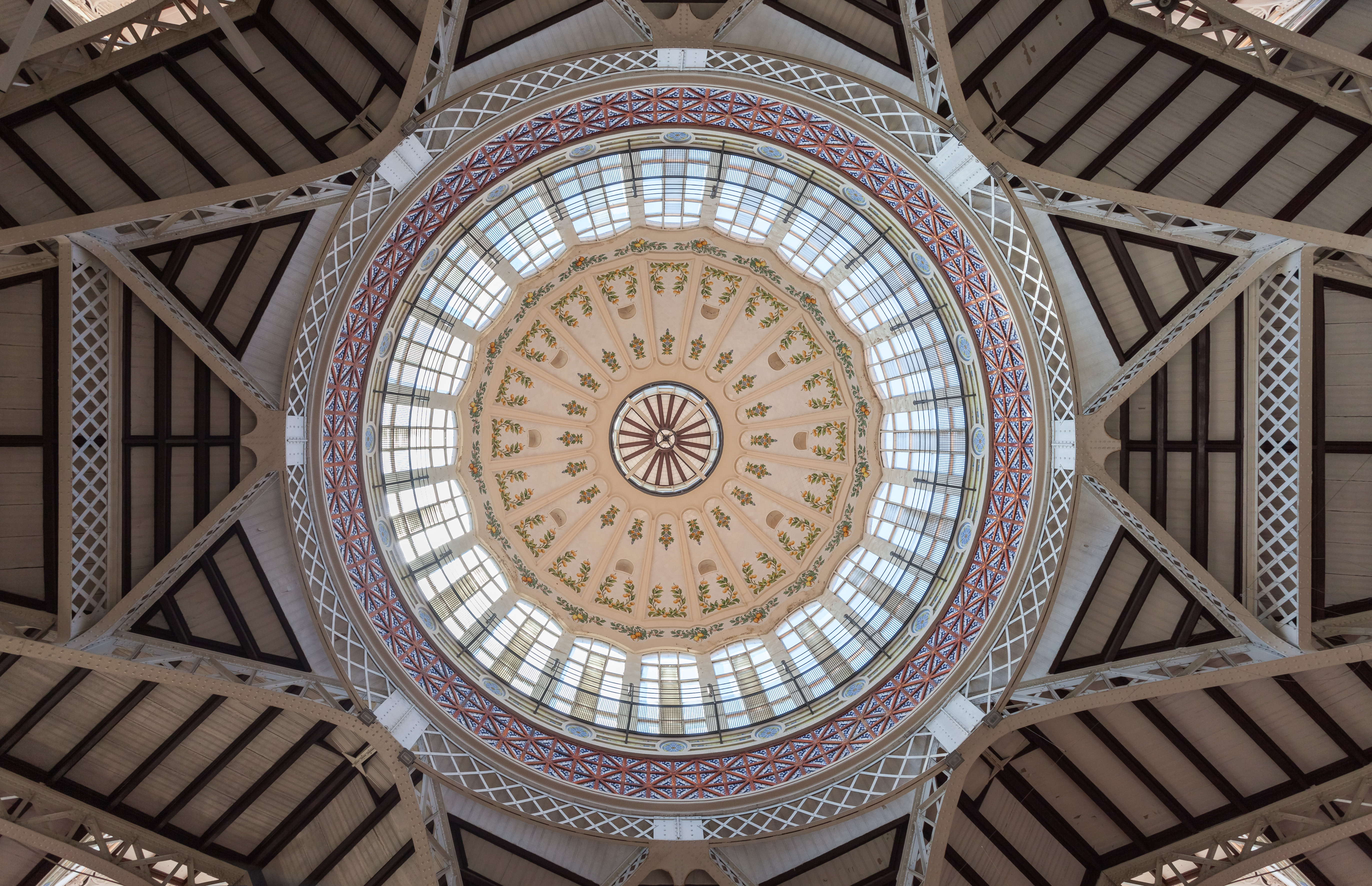 Interior view of the dome of the Central Market (Mercado Central), a 100-years-old modernist building located in Valencia, Spain. The market contains 400 stores that employ approx 1500 people, and is the biggest in Europe dedicated to fresh products.